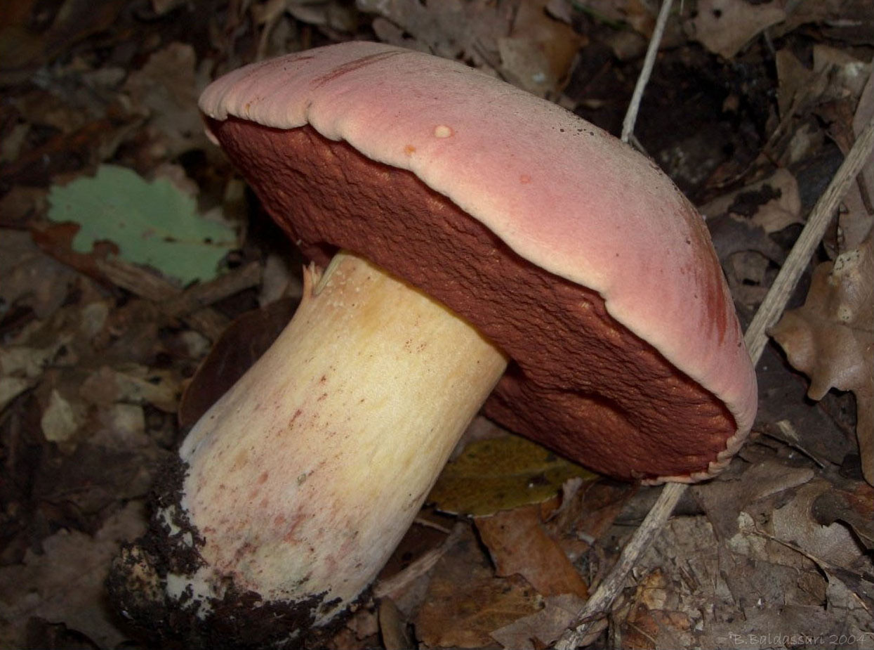 Fruiting body of 'Boletus lupinus' - Lajatico (PI)